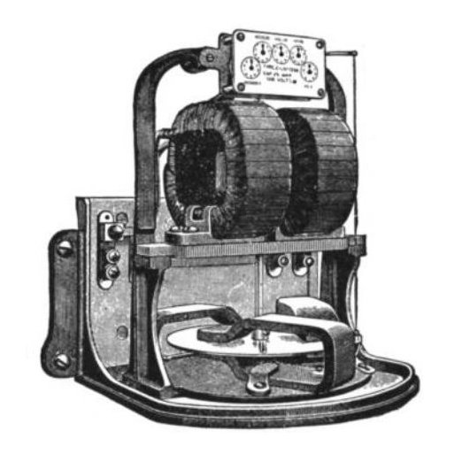 Drawing of Thomson recording wattmeter, invented by Elihu Thomson in 1888, made by the Thomson-Houston Co. around 1900. This is still the most common design for electric meters.